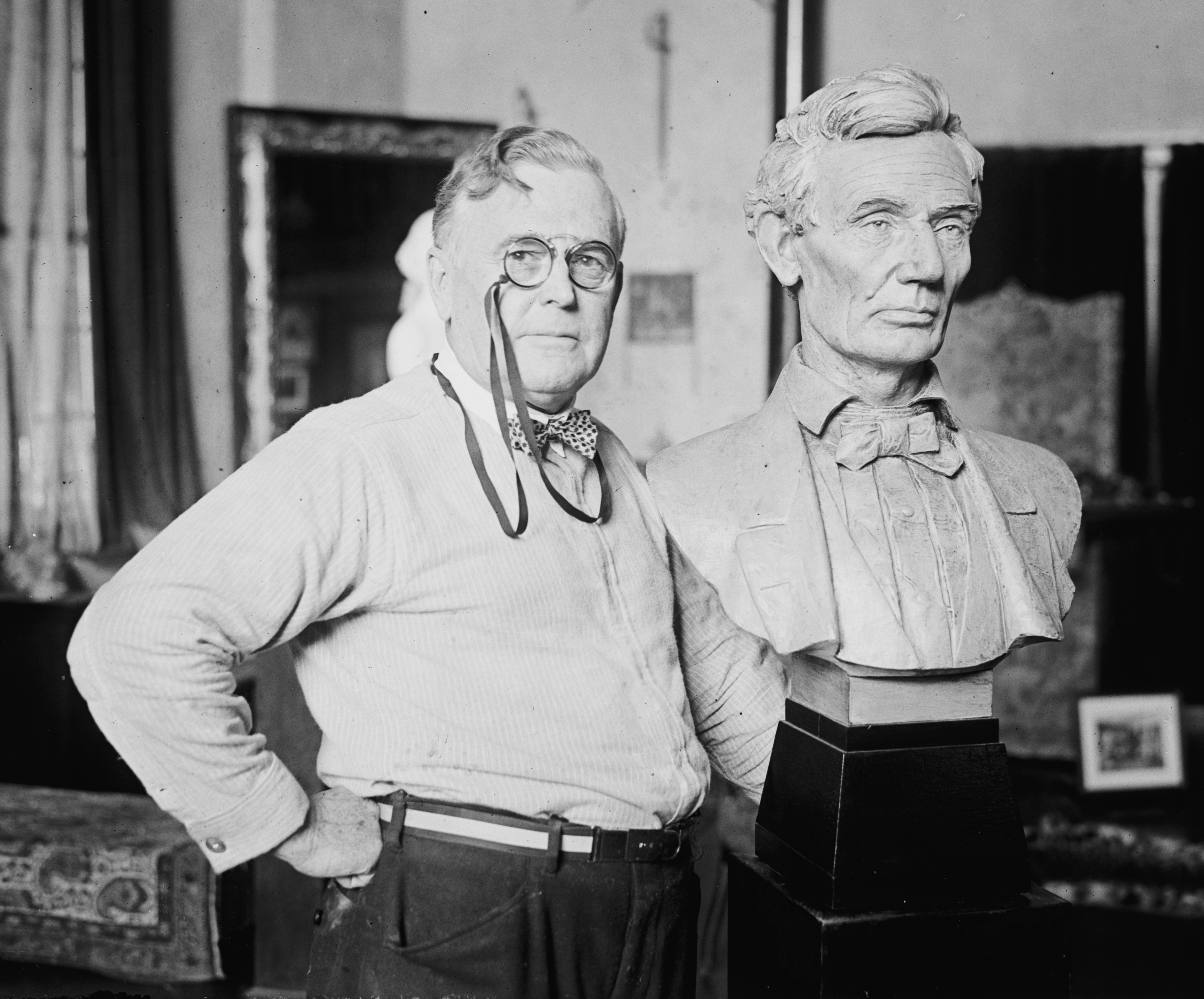 Sculptor W. Clark Noble with his Lincoln the Candidate bust, August 30, 1924. Cropped from negative.